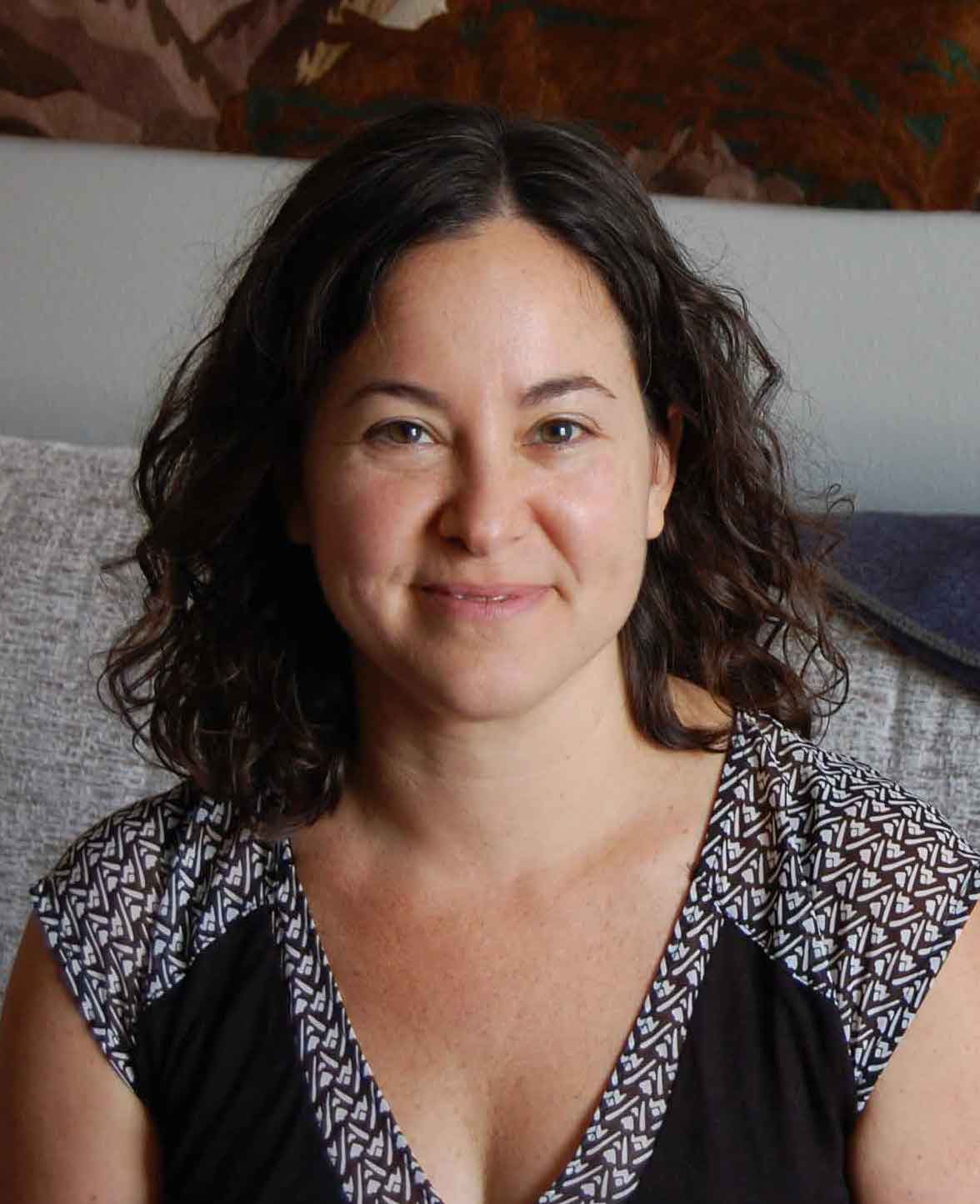 Lisa Olstein headshot in office